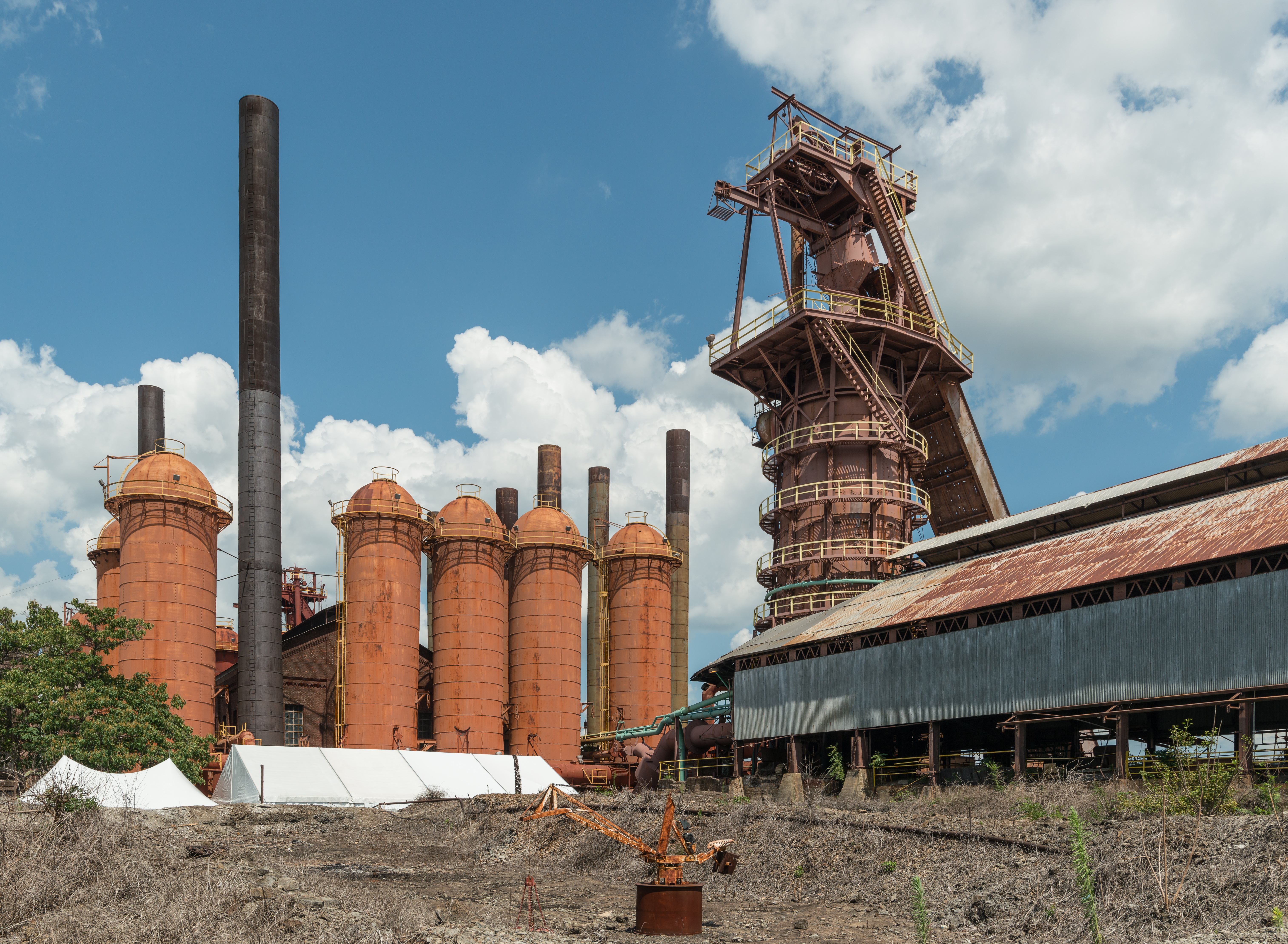 A west view of Sloss Furnaces, the cowper stoves and the blast furnace